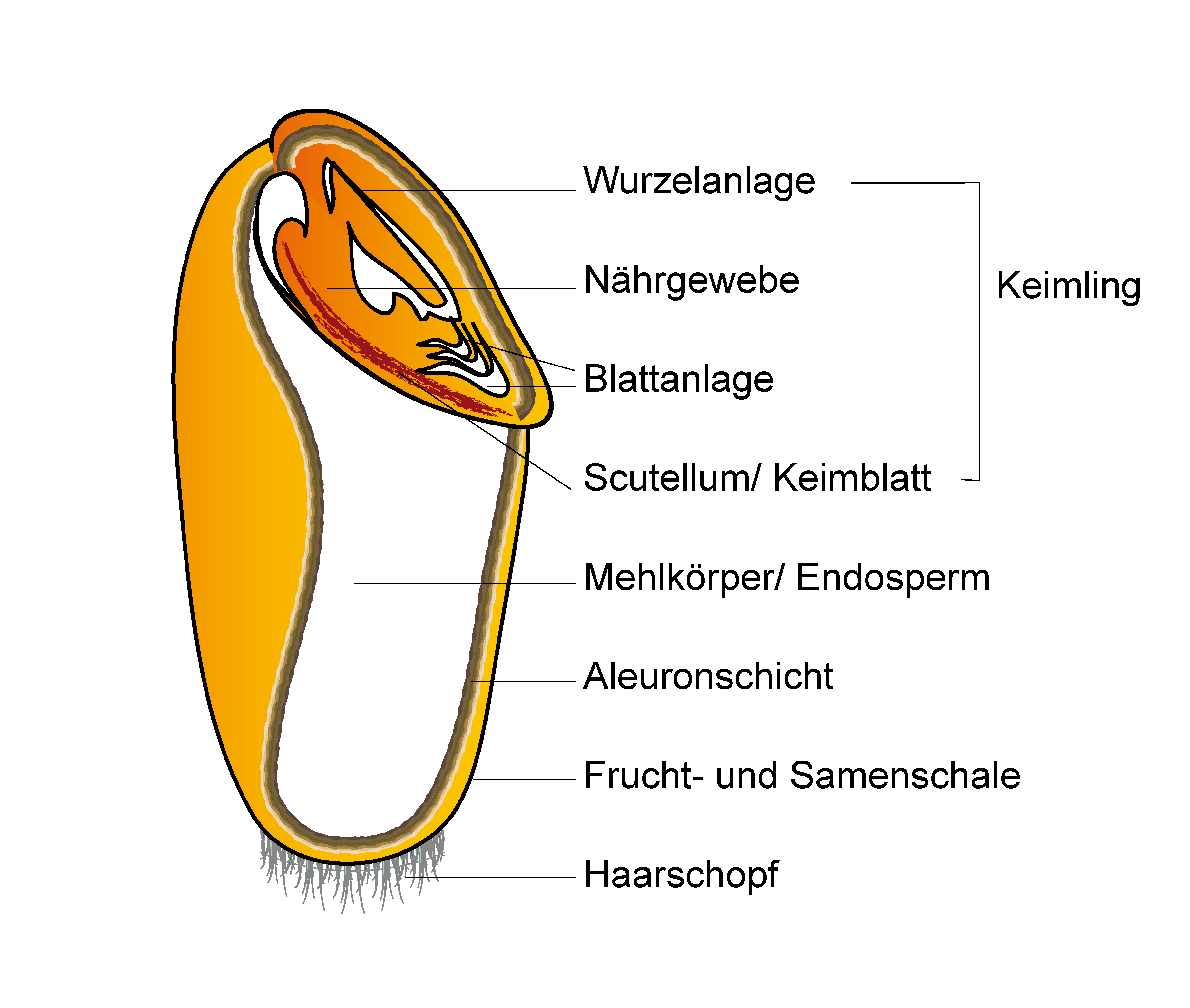 Model of a wheat grain